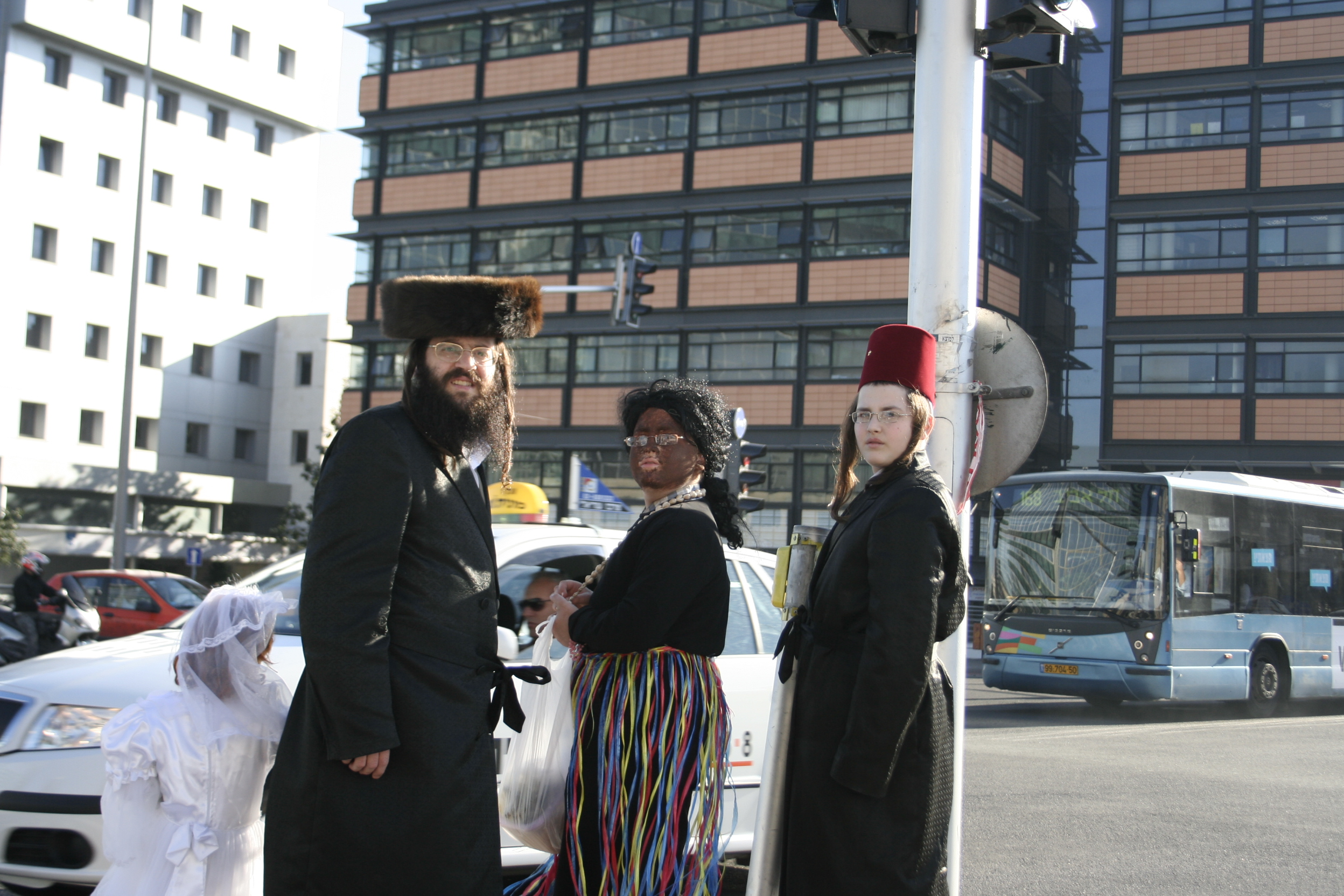 Purim, Tel Aviv 4 March 2007 Tel Aviv-Yafo